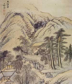 Daeeunwmdo, Jeong Seon, house of Nam Gon